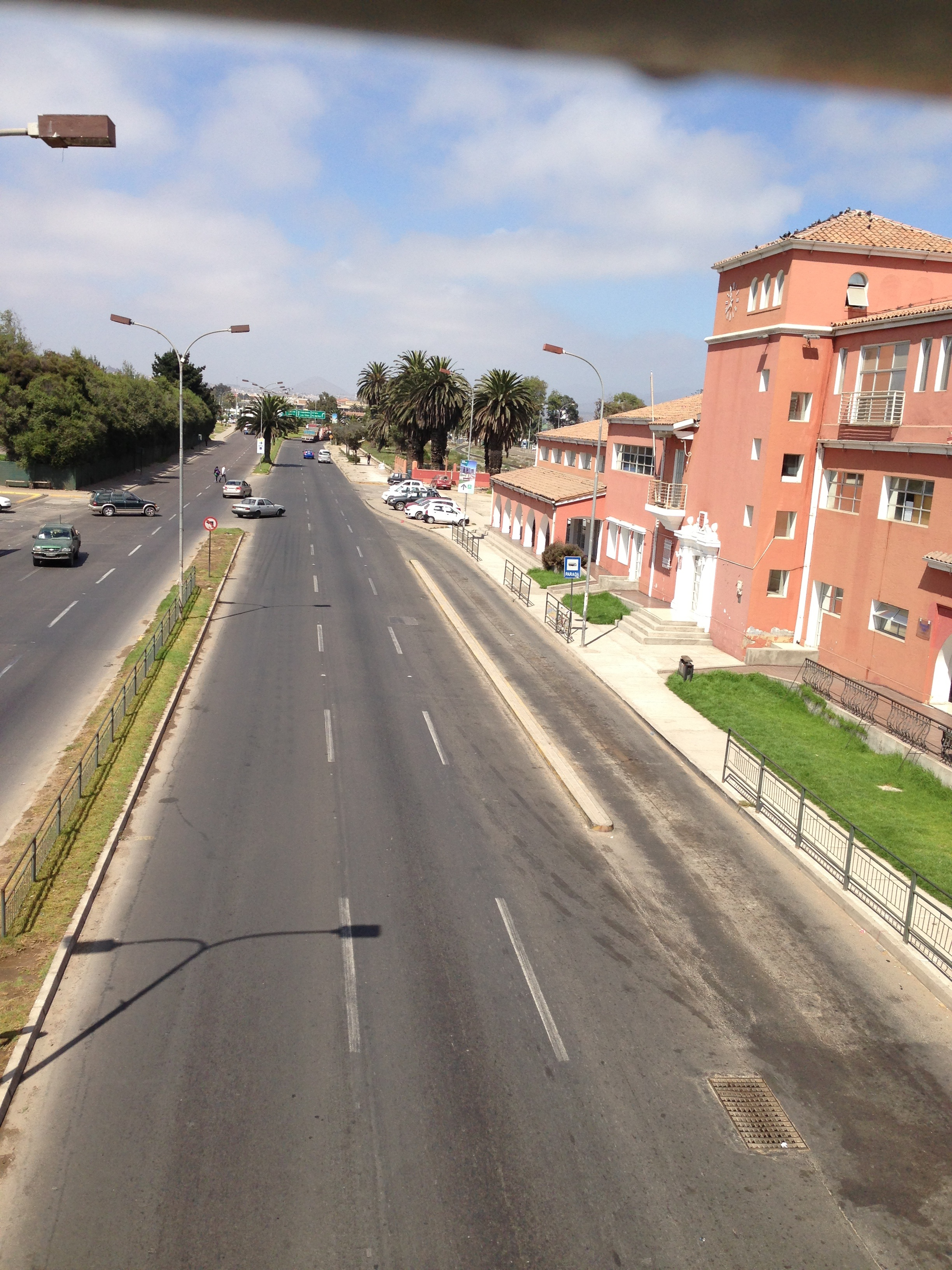 Highway in La Serena, Chile. Pedestrian Bridge.